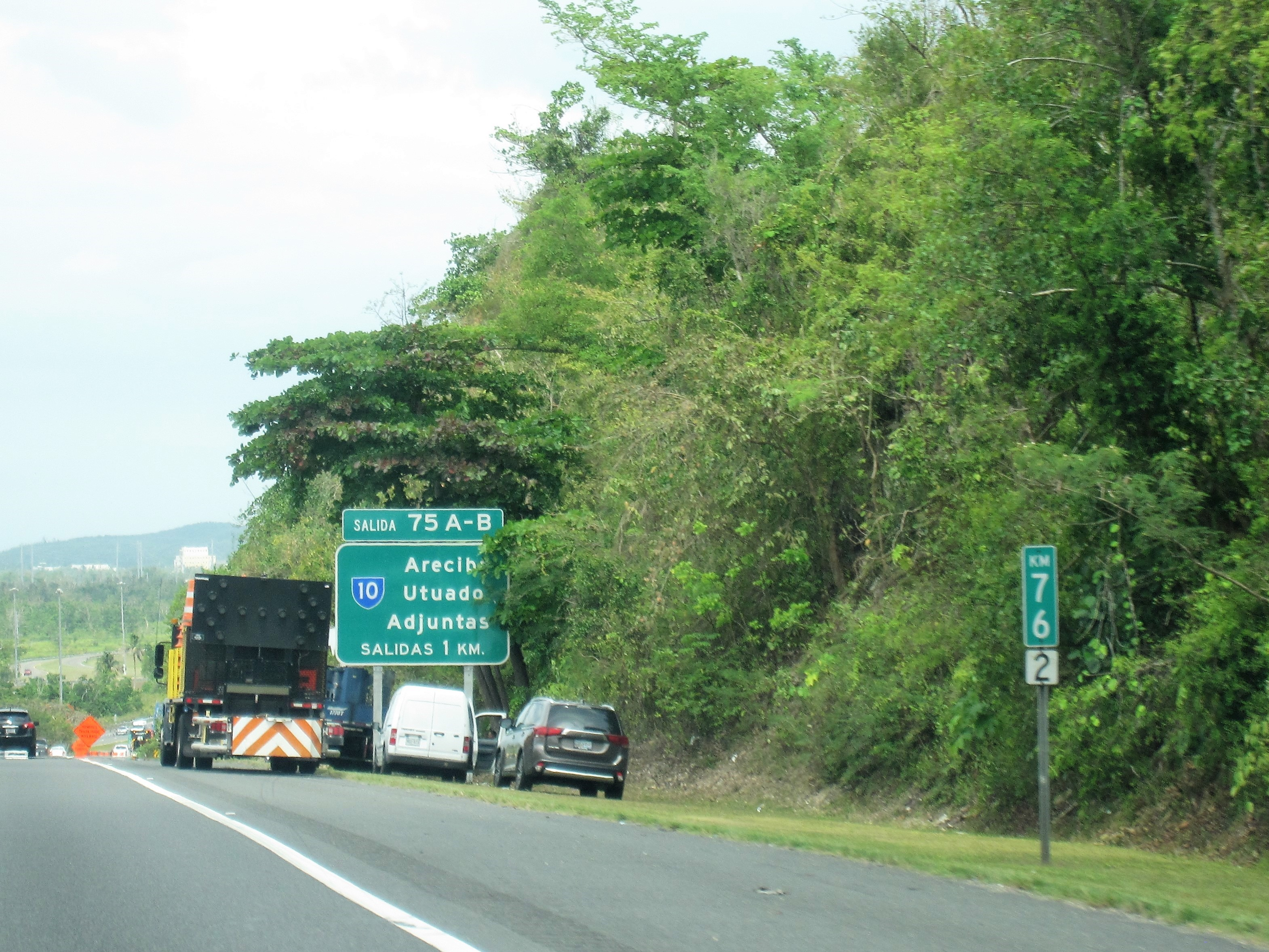 PR-22, sign for exits 75 A-B, PR-10 Arecibo, Utuado, Adjuntas